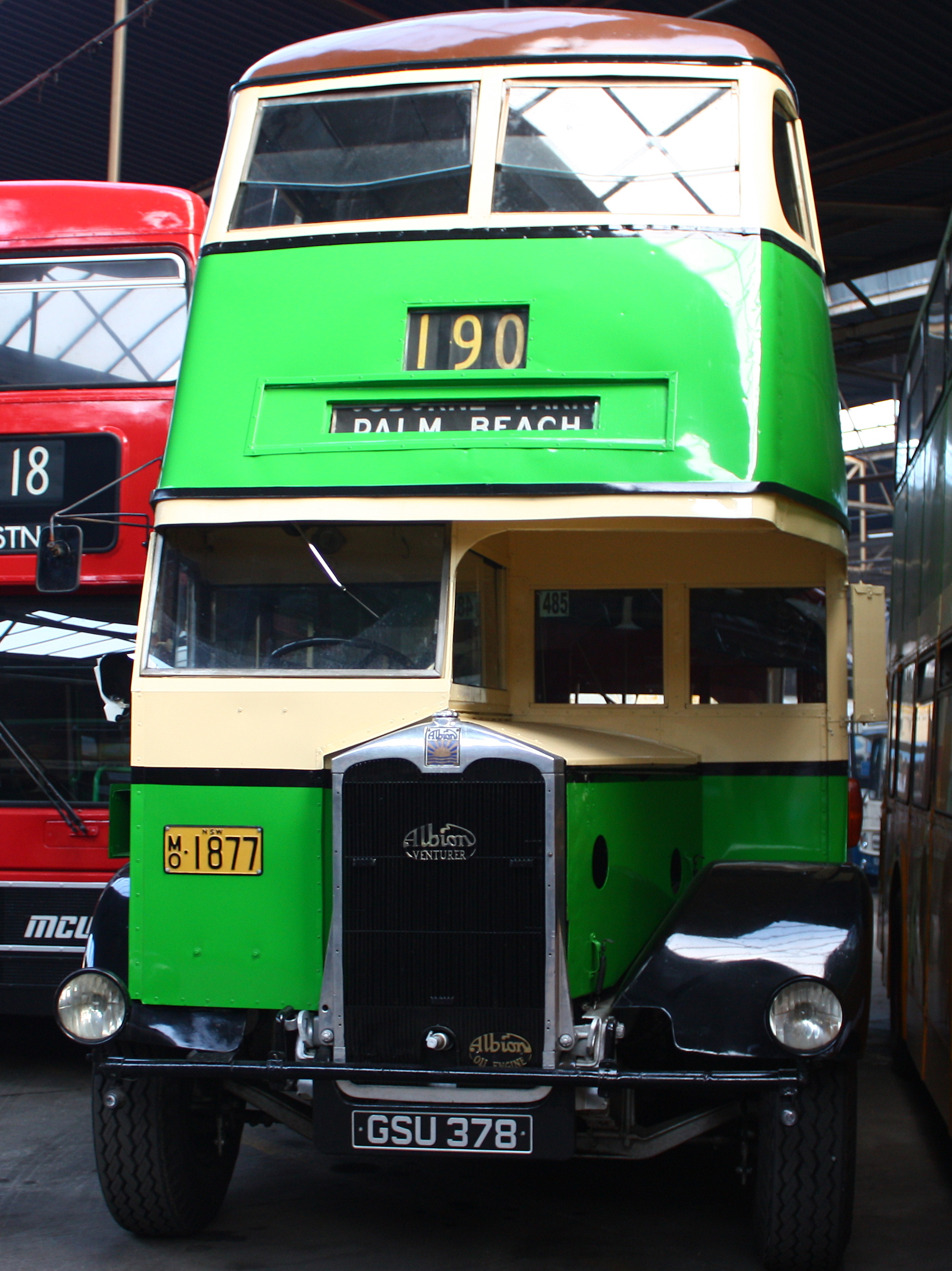 GSU 378 Sydney Albion Venturer ex-MO 1877